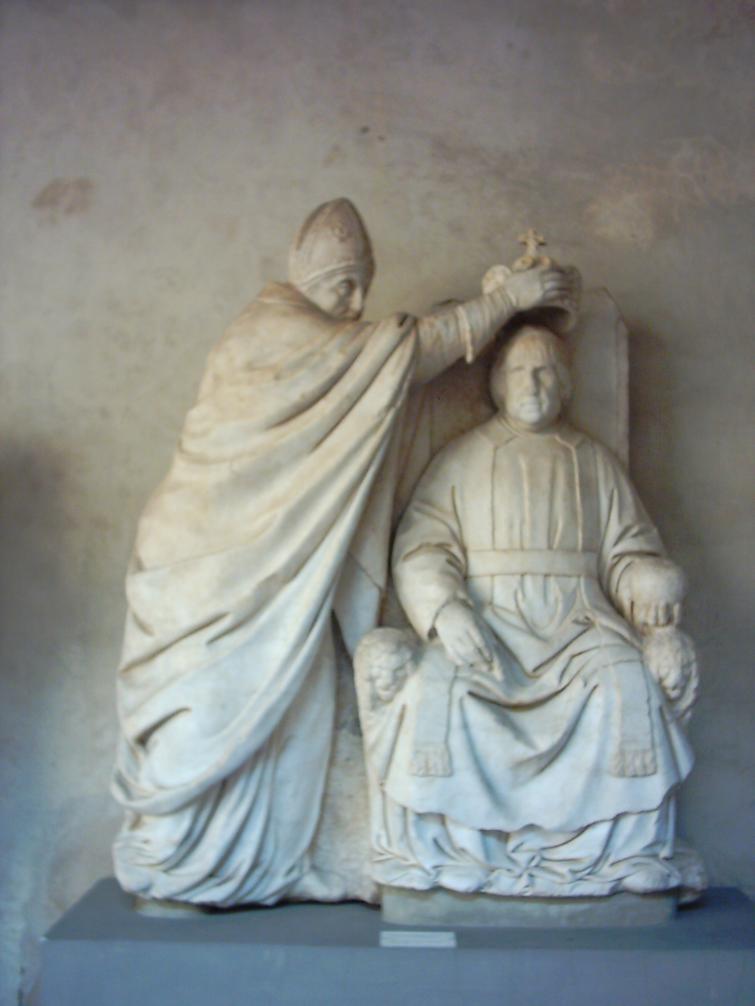 Photo taken by myself of an sculpture by Benedetto da Maiano in the Bargello Museum, in Firenze, Italy. It shows the coronation of Ferdinand II of Aragon as King of Naples.